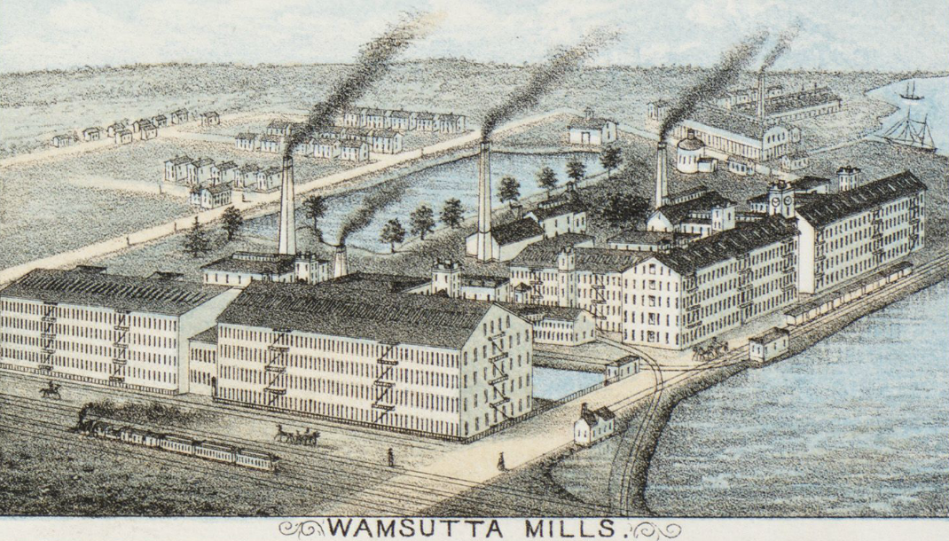 Detail of: View of the City of New Bedford, Mass. Publisher: O.H. Bailey & Co. Date: 1876 Location: New Bedford (Mass.) Dimension 48.0 x 84.0 cm. Scale: Not drawn to scale